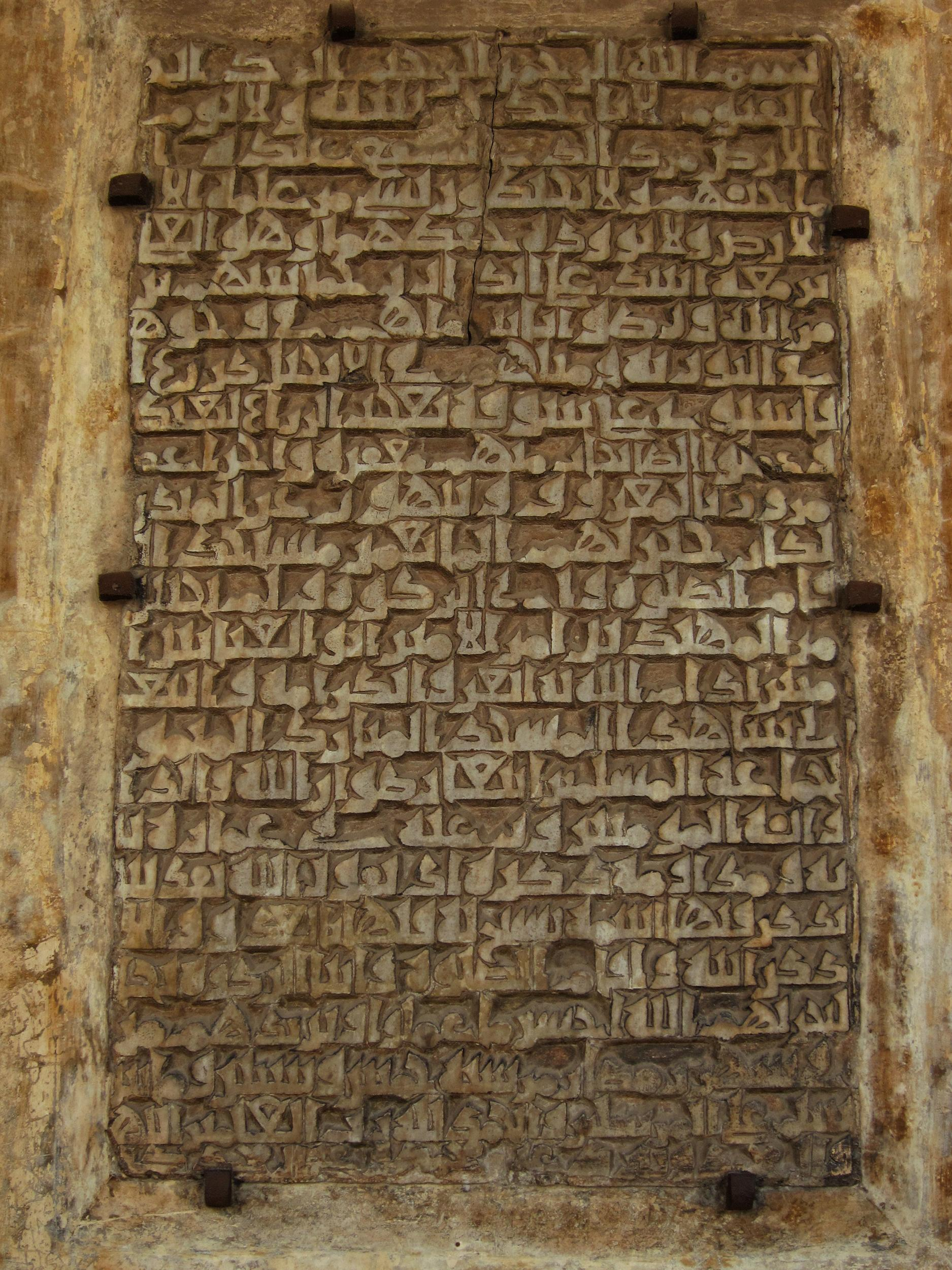 The Mosque of Ahmad Ibn Ţūlūn (Arabic: مسجد أحمد بن طولون) is located in Cairo, Egypt. It is arguably the oldest mosque in the city surviving in its original form, and is the largest mosque in Cairo in terms of land area. The mosque was commissioned by Ahmad ibn Ţūlūn, the Abbassid governor of Egypt from 868–884 whose rule was characterized by de facto independence. The historian al-Maqrizi lists the mosque's construction start date as 876 AD[1], and the mosque's original inscription slab identifies the date of completion as 265 AH, or 879 AD. Sources.